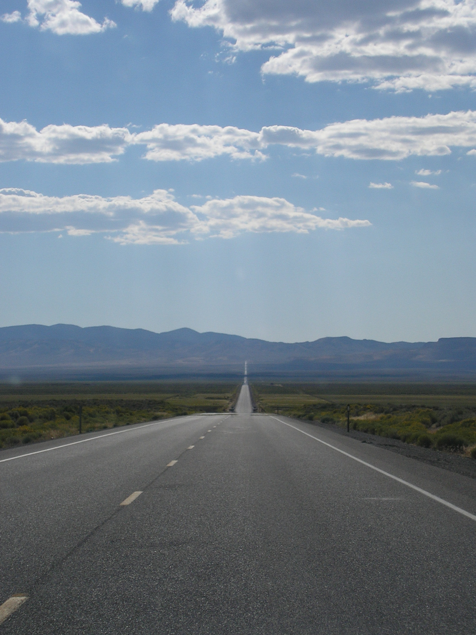 Taken along US 50 in Nevada, August 25, 2005. This section is colloquially referred to as "the Loneliest Road in America".